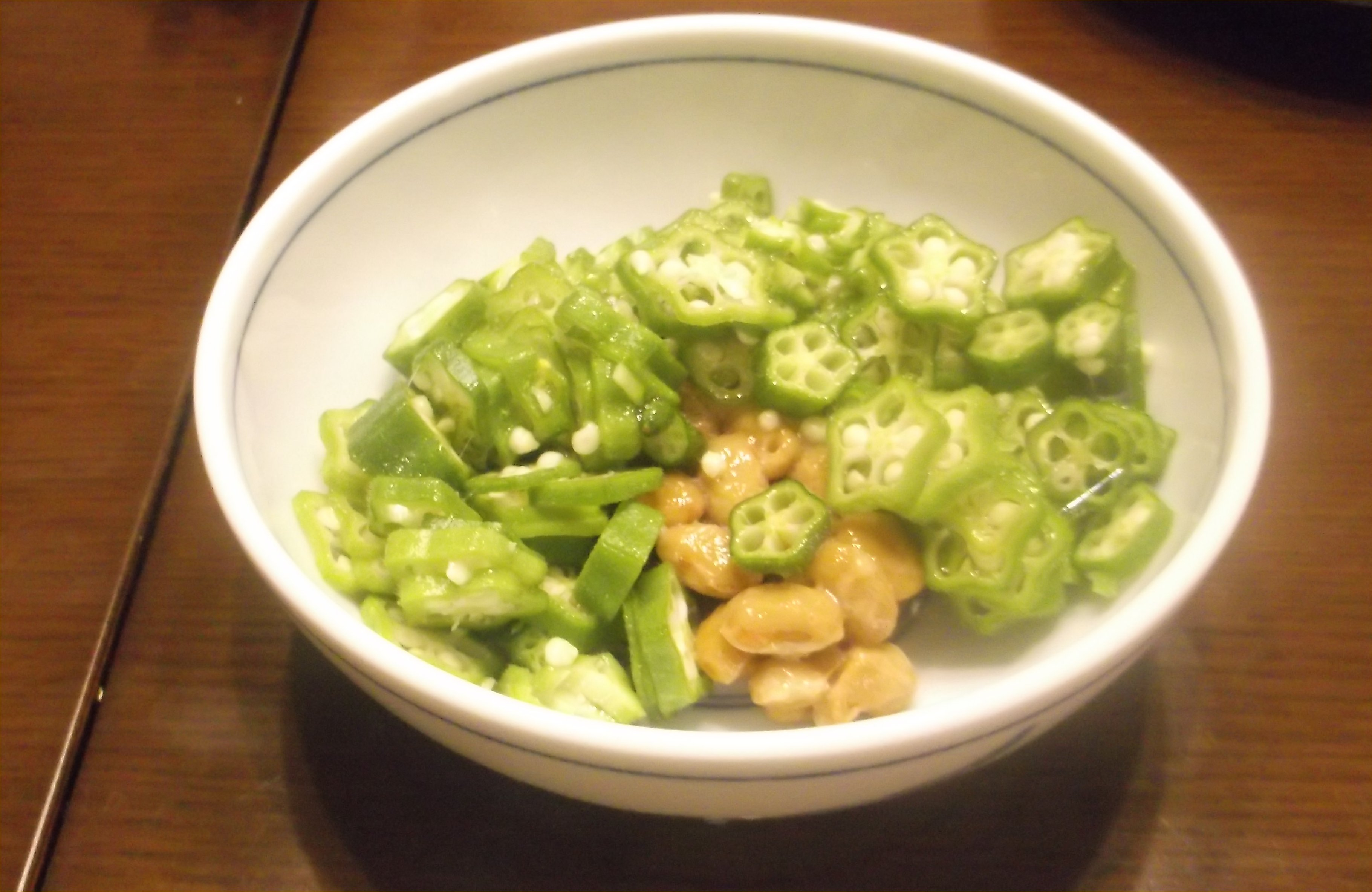 A photo of a Japanese side dish "okranatto"(natto with okra).